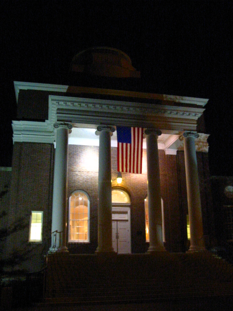 University of Delaware's Memorial Hall on the second anniversary of the September 11th terrorist attacks